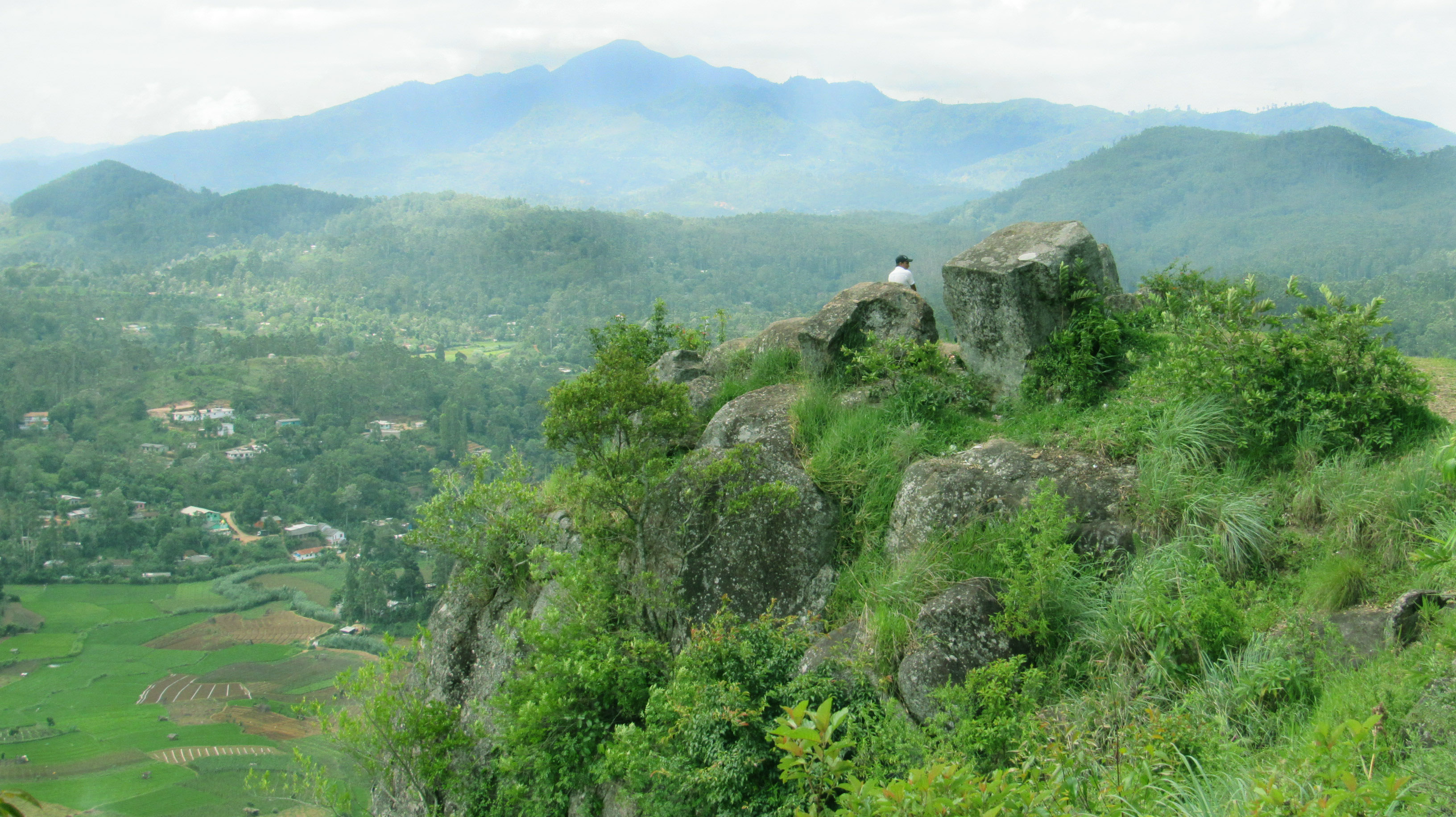 Porawagala is most suitable place to observe Bandarawela, Sri lanka.